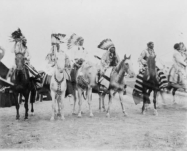 Blackfoot warriors on horseback in 1907